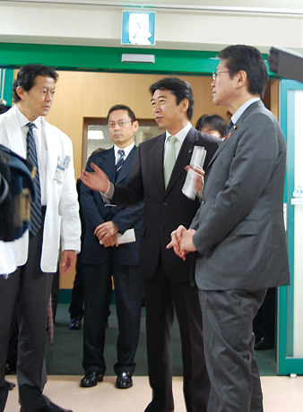 Akira Nagatsuma, Minister of Health, Labour and Welfare, and Shinya Adachi, Parliamentary Secretary of Health, Labour and Welfare, inspecting Kawakita General Hospital in Suginami Ward, Tokyo, on December 3, 2009